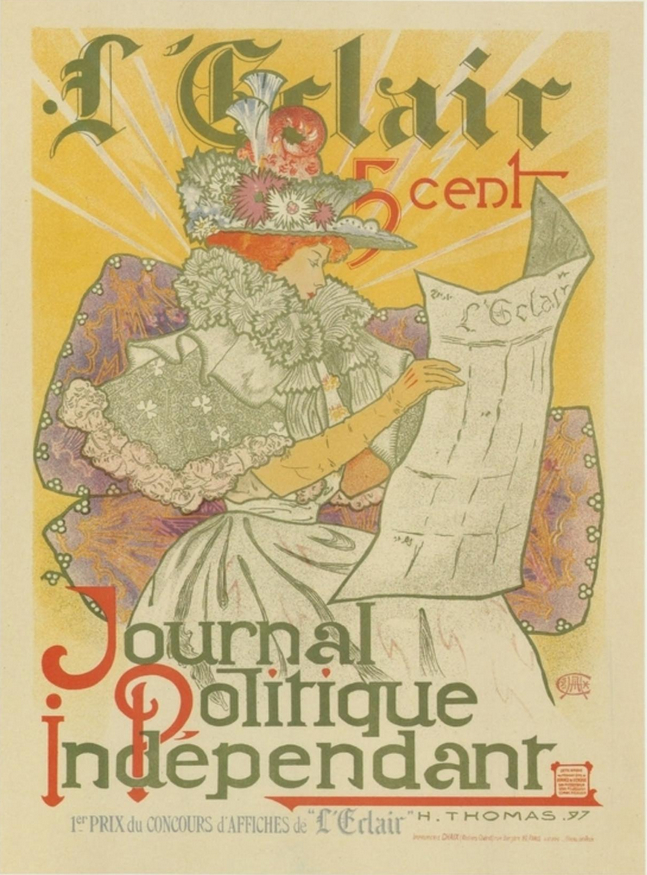 Lithographic poster of the Belgium newspaper L'Eclair, designed by Henry A. Thomas, winner of the price.